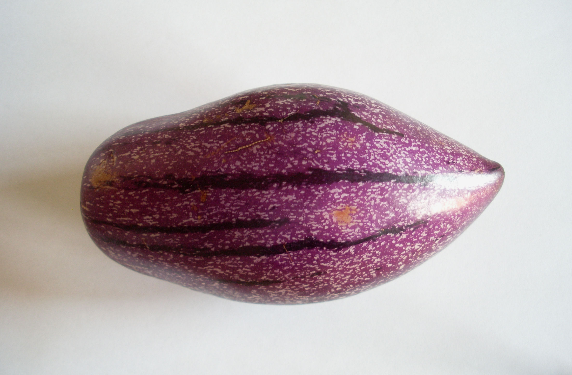 Pepino (Solanum muricatum)